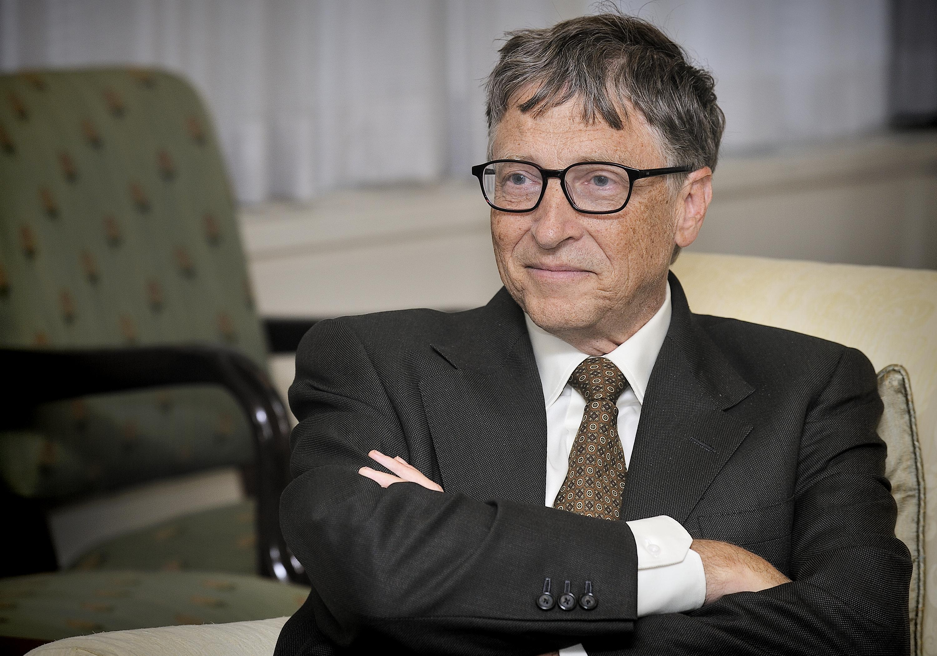 William (Bill) H. Gates, founder, technology advisor of Microsoft Corporation visits The Department of Energy on October 8, 2013.